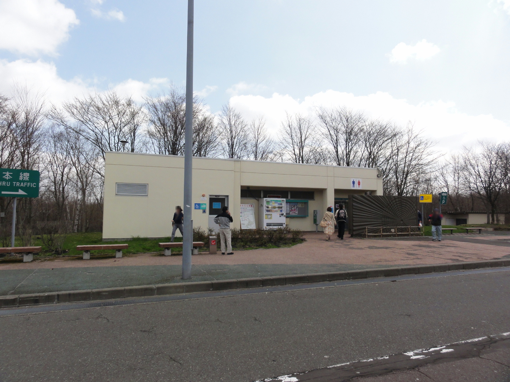 Hokkaidō Expressway Misawa Parking Area for Hakodate